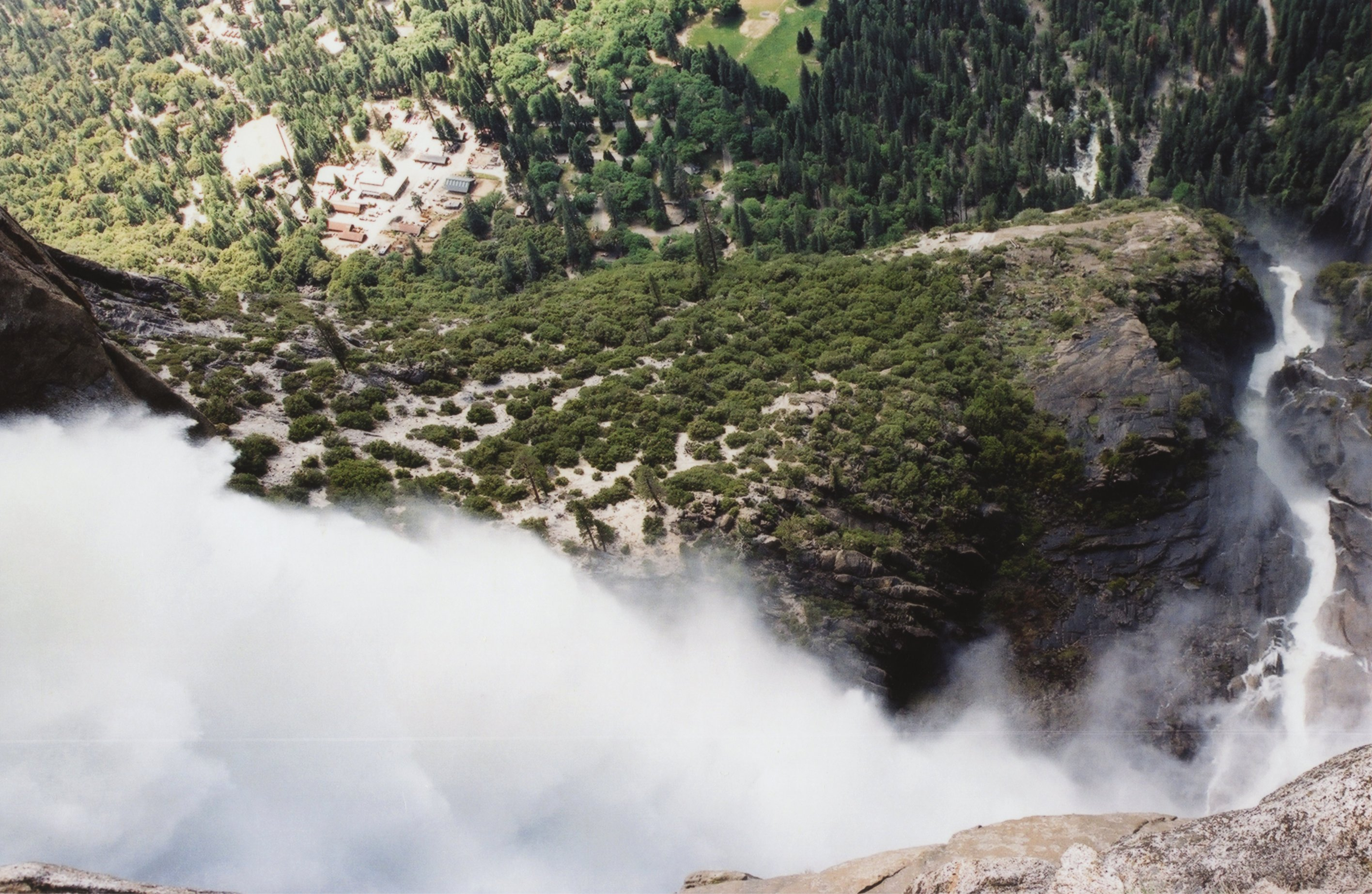 View from top of Upper Yosemite Falls